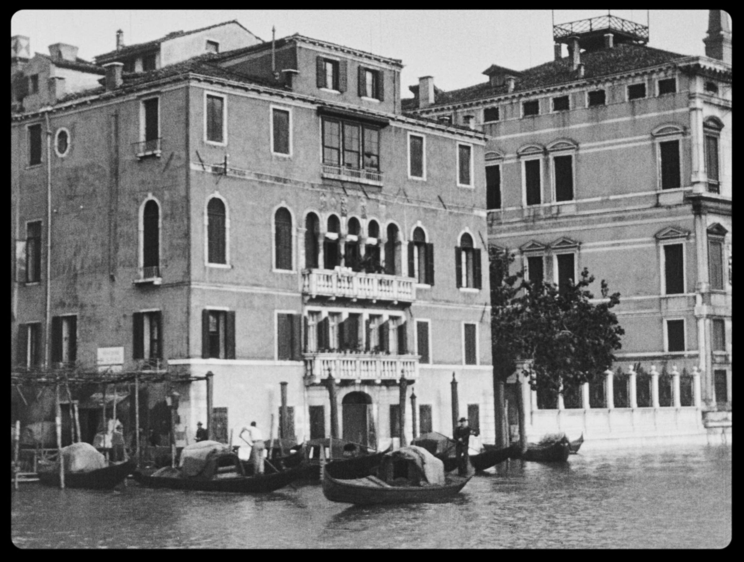 Still from a short movie shot by Alexandre Promio, showing the Grand Canal in Venice, Italy, created between October and December 1896. Screened on December 13th 1896 in Lyon (France) under the title "Panorama de Venise (Vue du Grand Canal)" (source: "Lyon républicain", 13th December 1896). Item number 295 in the Lumière film catalog.